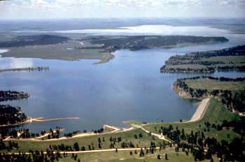 Aerial view of Keyhole reservoir from dam facing west.